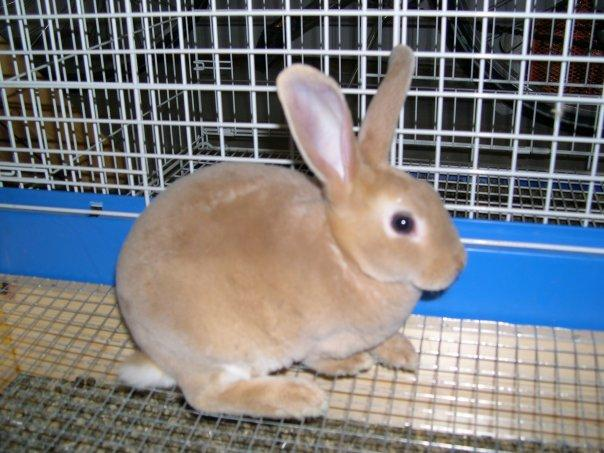 A baby Lynx Mini Rex